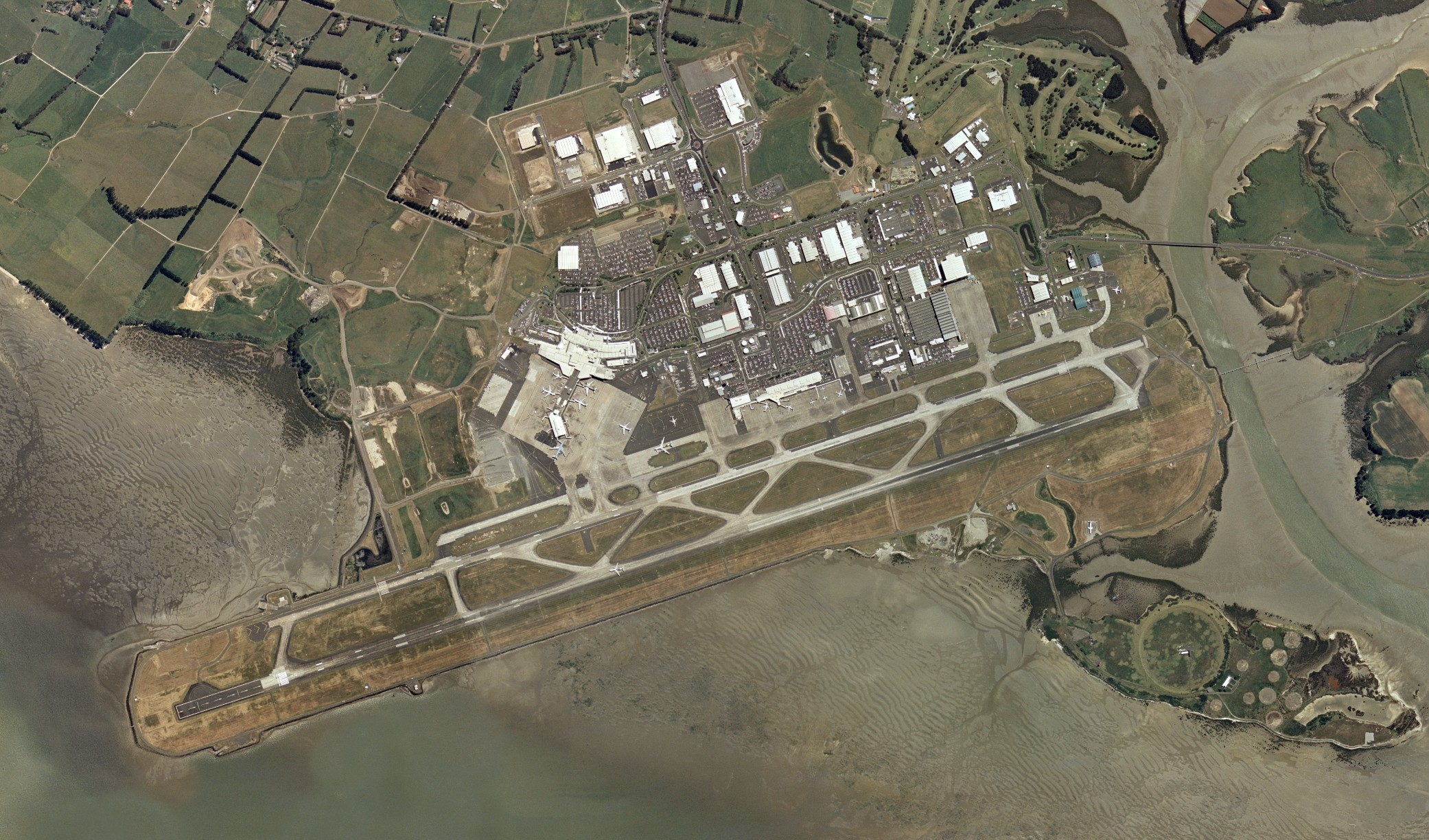 An aerial photo of the Auckland International Airport. Cropped from NZTM ortho BB32.